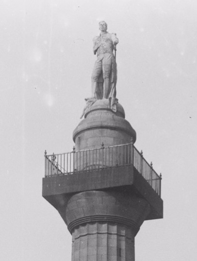 Cropped detail of the statue and viewing platform of Nelson's Pillar, Dublin, Ireland, from a circa 1927 photograph.